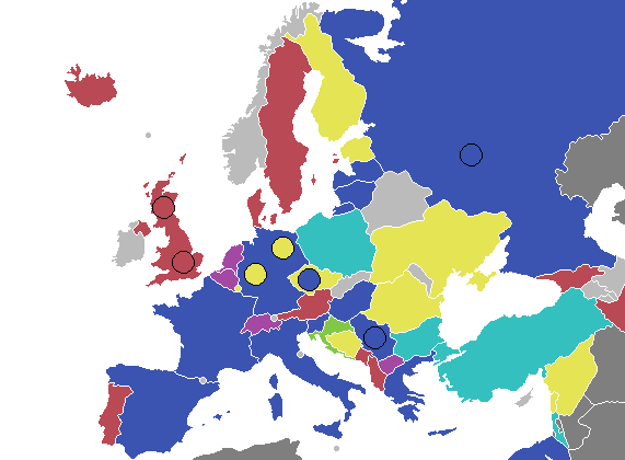 Best finishes of countries in the Eurobasket. First place Second place Third place Fourth place Between fifth place and eighth place Worse than eighth place FIBA Europe member, no appearance yet Not a FIBA Europe member Circles: Denotes a country that former competed that is either defunct (such as the former Soviet Union and Yugoslavia) or has been superseded (such as England and Scotland) by another country. The best finish of the country in its current form is the shade outside the circle; the shade inside the circle is the best finish as the defunct/superseded country.